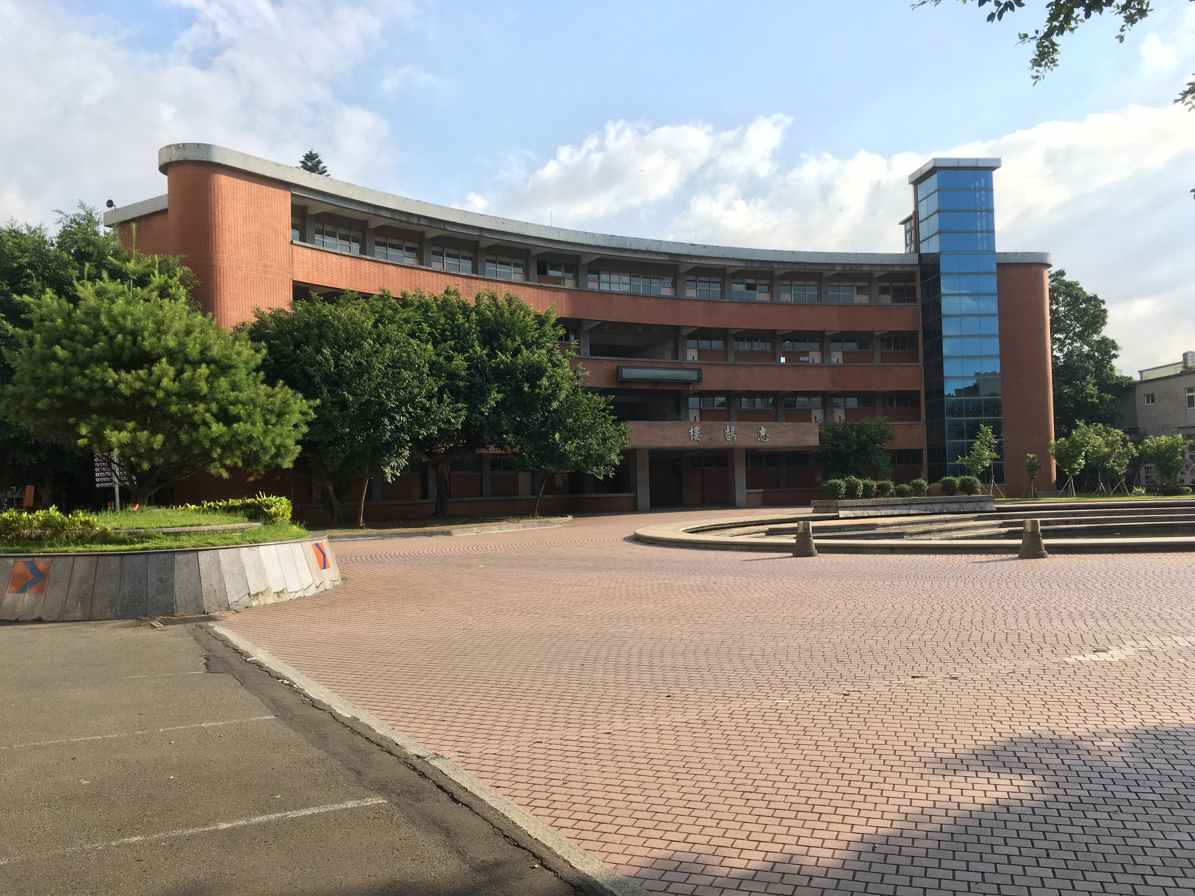 Administration Building in Nanya Institute of Technology